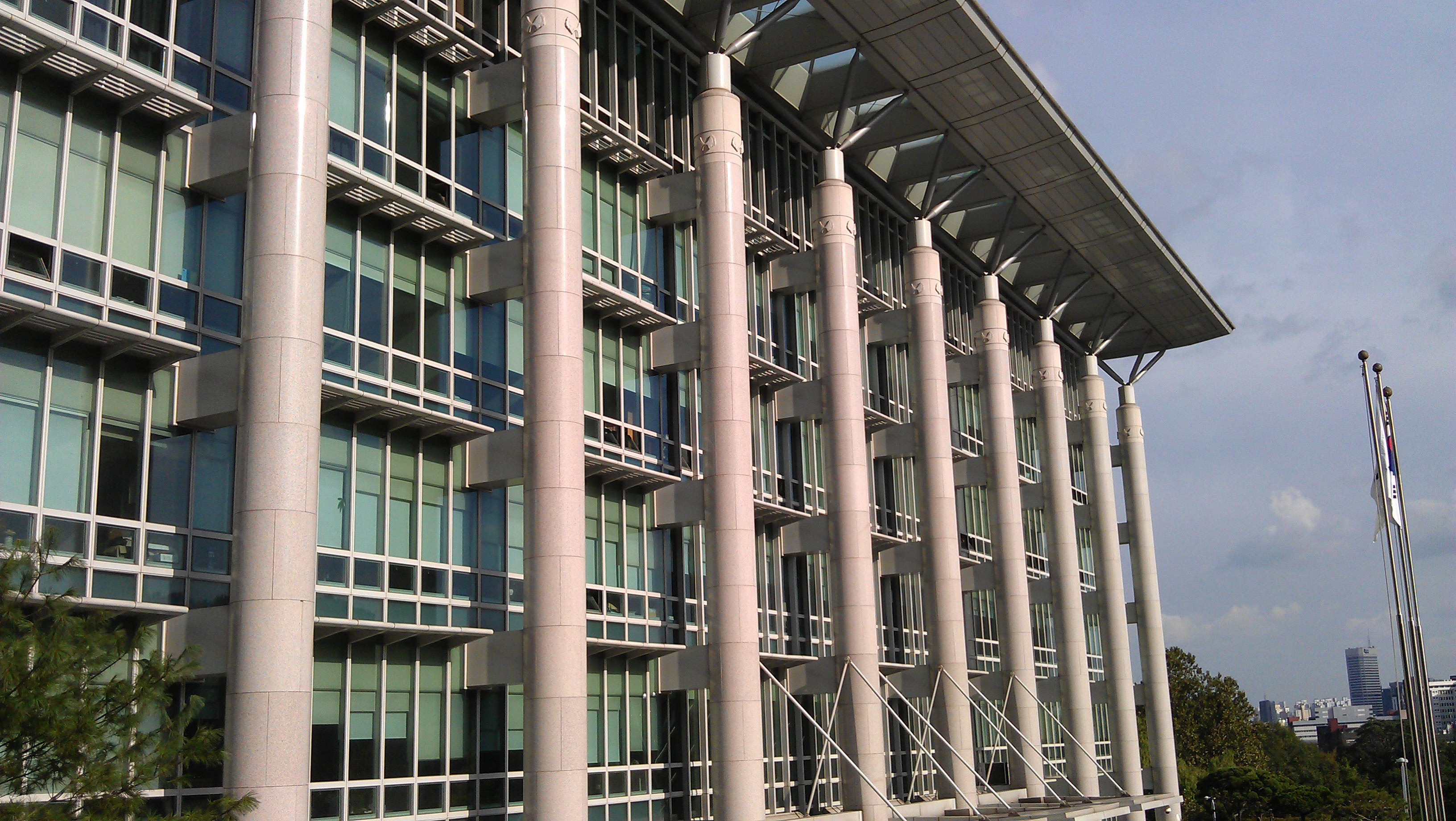 The 600 Anniversary Hall at Sungkyunkwan University.